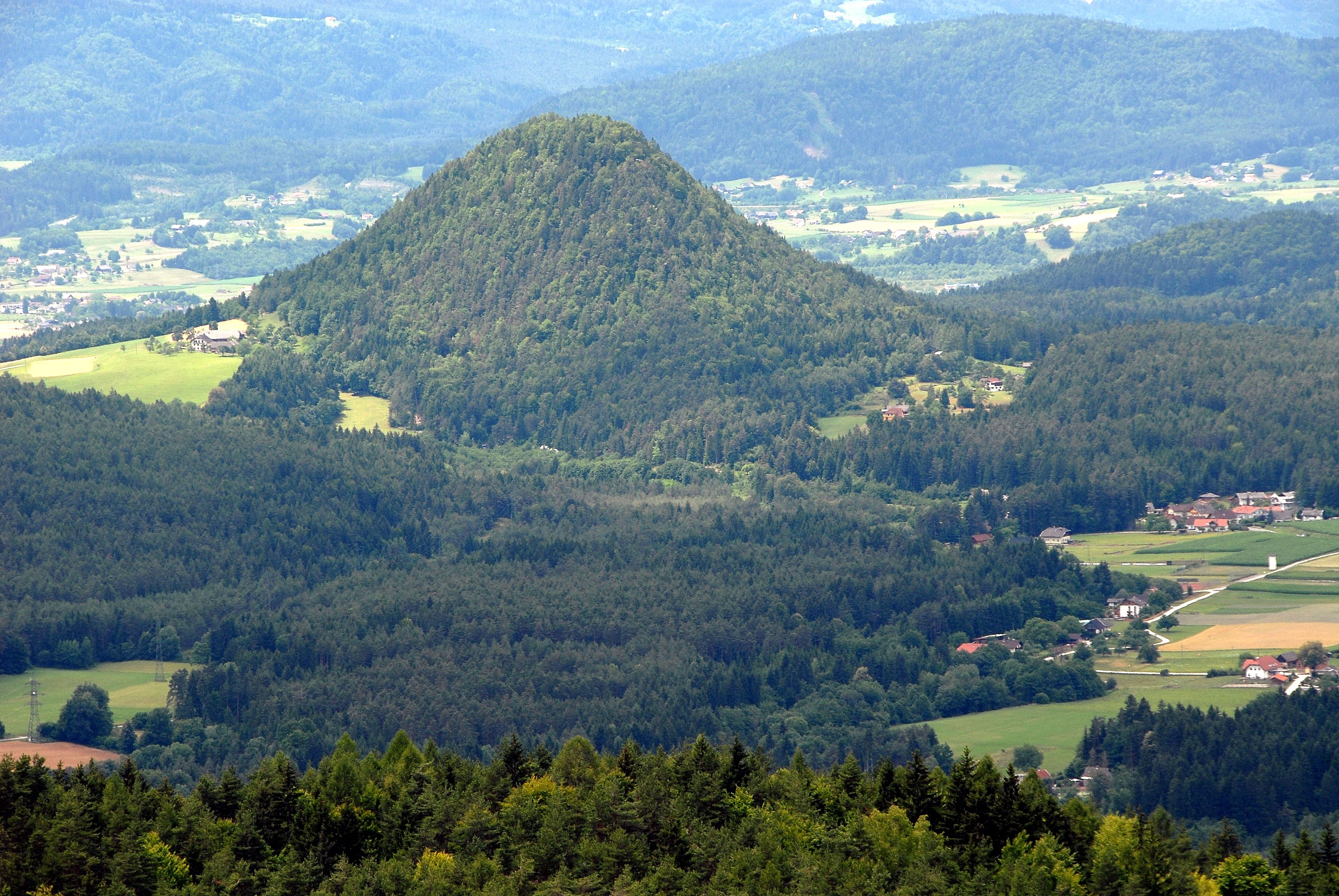 Kathrein ballon (seen from the Pyramid ballon), municipality Schiefling am See, district Klagenfurt Land, Carinthia / Austria / EU